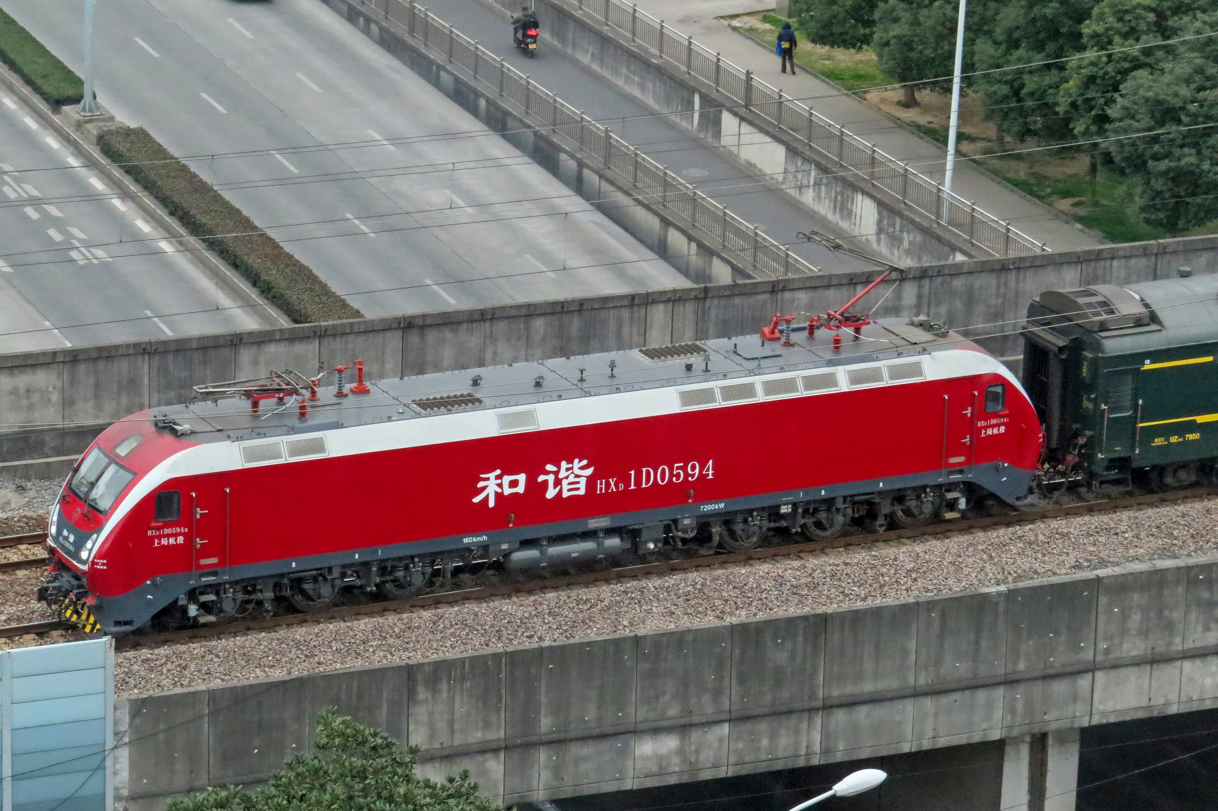 K75 from Changchun. Taken from the Grand Building of Nanyuan Hotel, Ningbo.